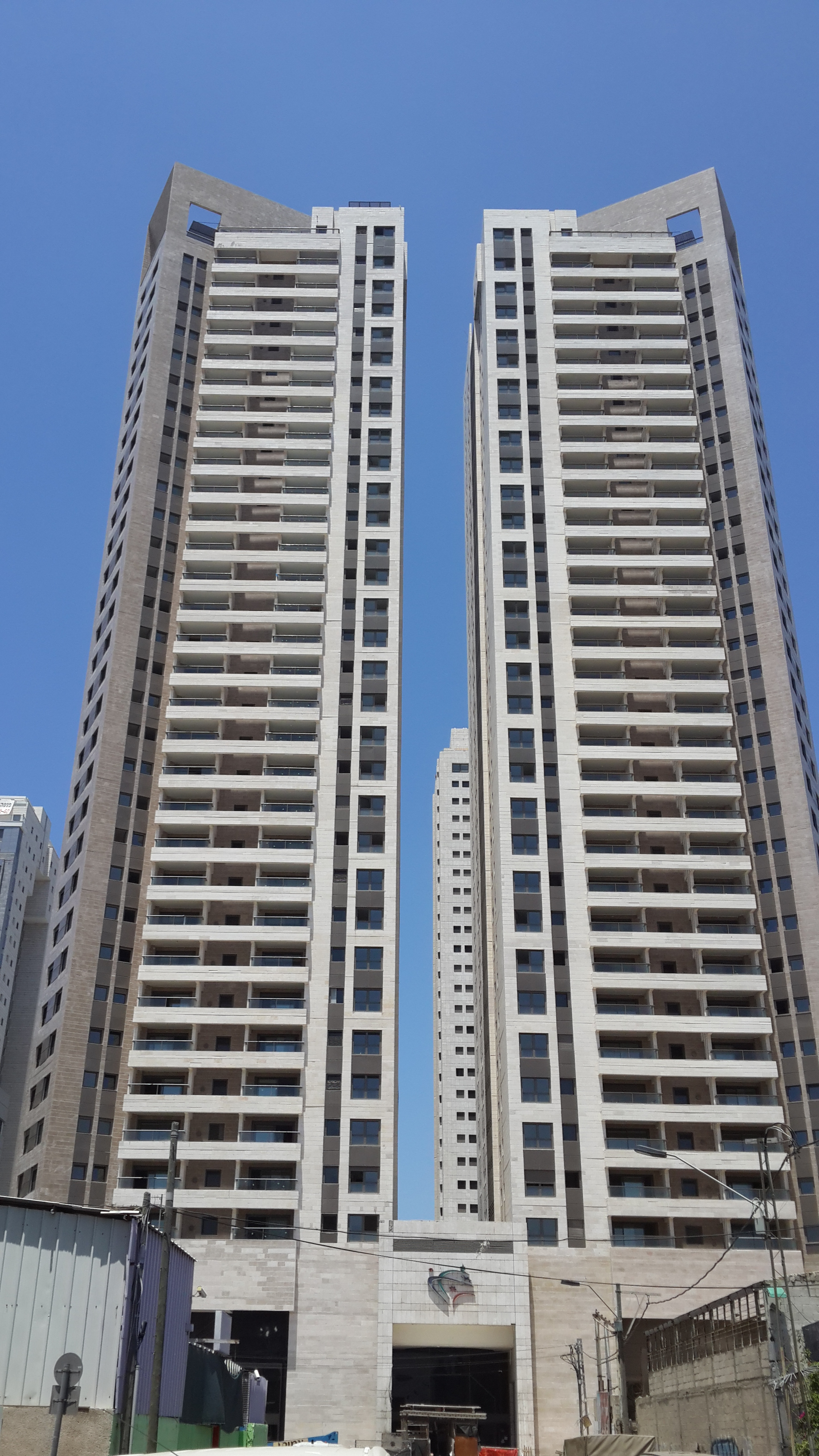 Tel Aviv Towers